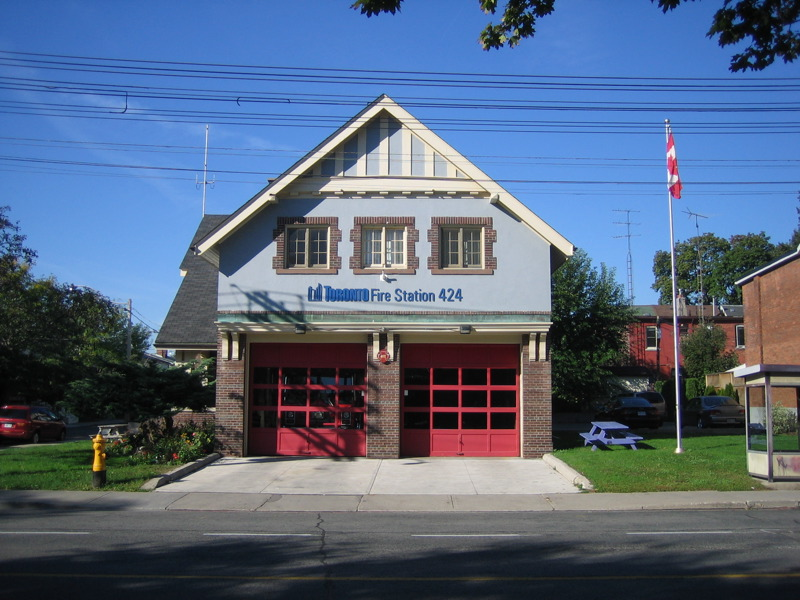 Toronto Fire Station 424 near Mark's place in Bloor West Village